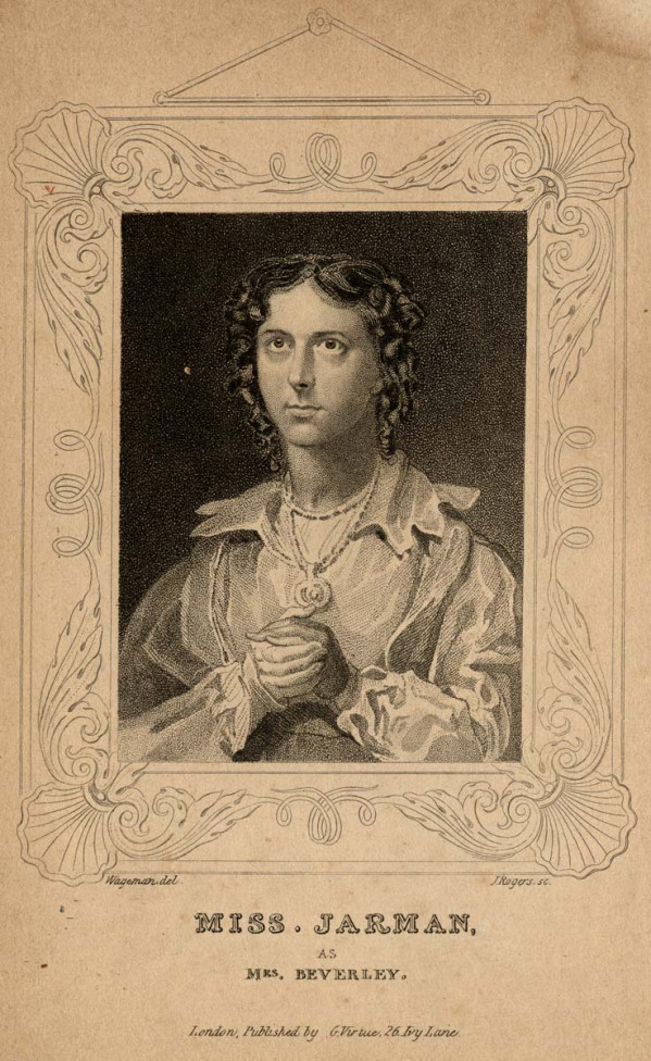 Frances Jarman, Ellen Ternan's mother, before her marriage.